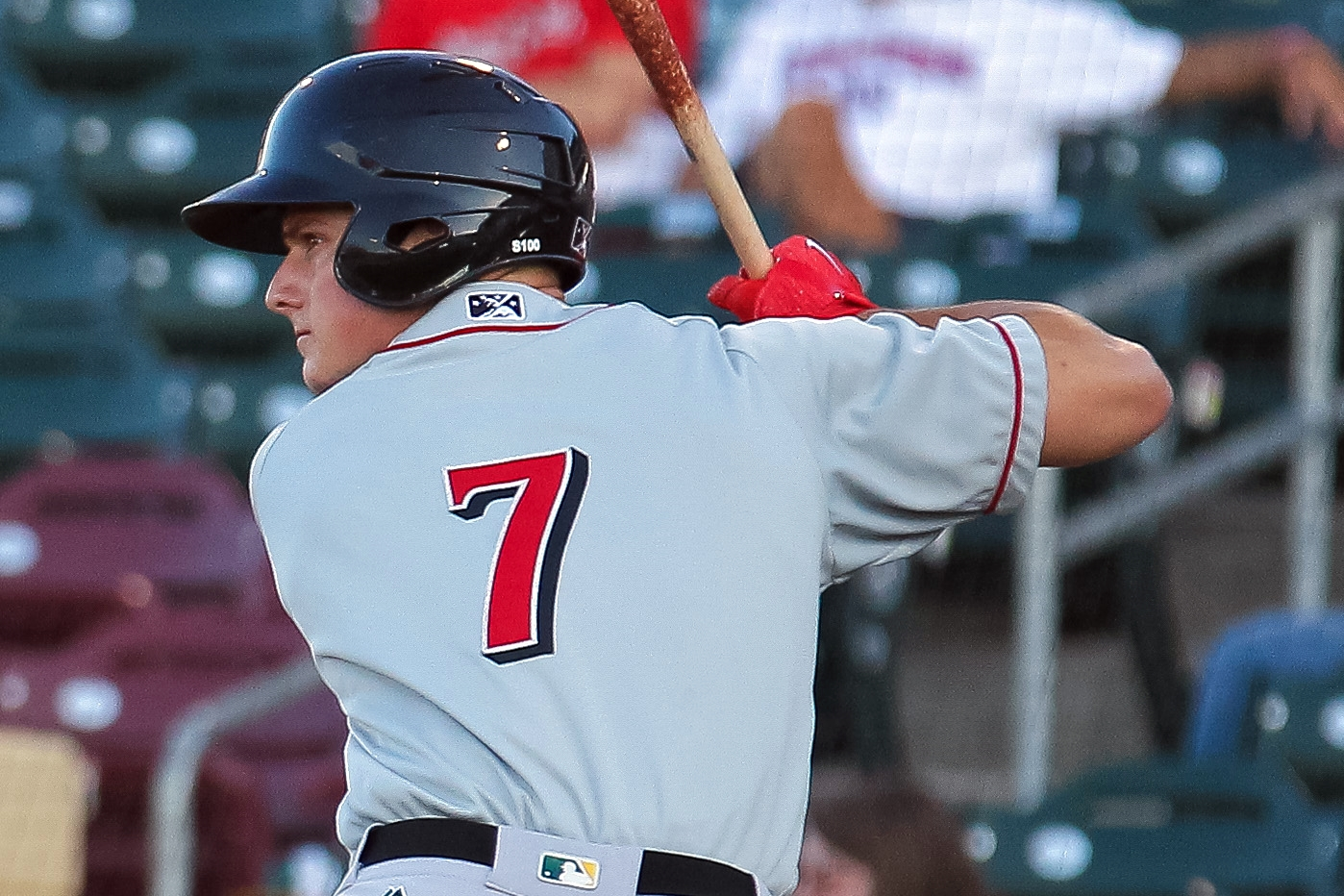 Minda Haas Kuhlmann | 2017 USAGE INSTRUCTIONS: You are welcome to share or publish to your own site or social media account, but you MUST credit me, Minda Haas Kuhlmann, or by my Twitter handle (@minda33) or Instagram (minda.haas).